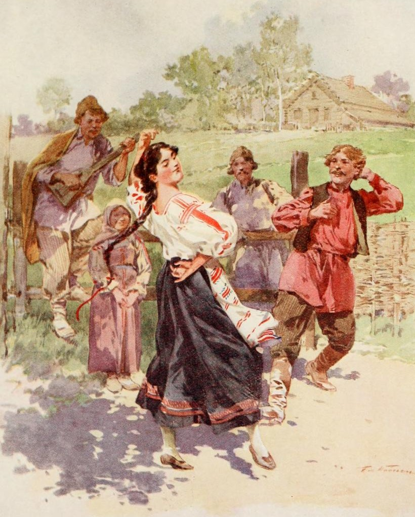 A dance in Little Russia (Ukraine), c. 1913. Painted by Frédéric de Haenen